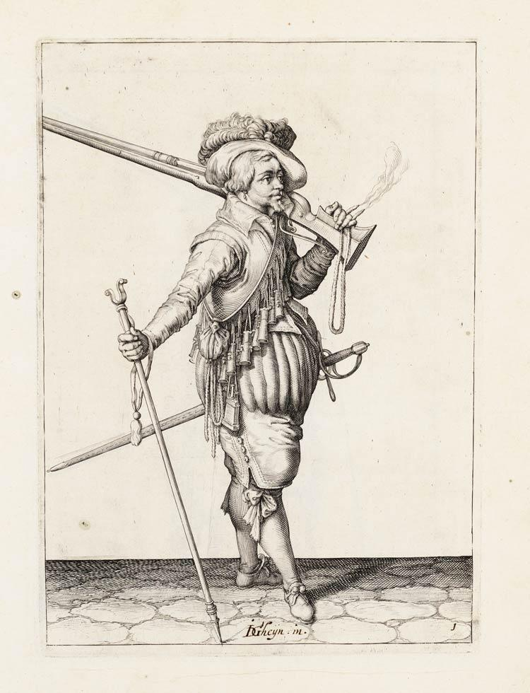 Instructions for the use of the musket. Instruction 1: March with the firing rest in your hand